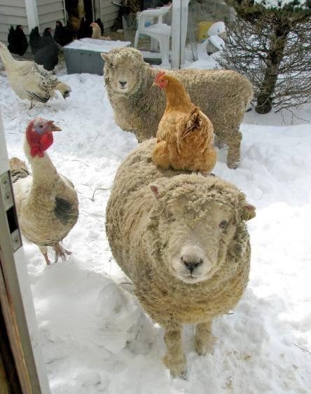 Babydoll Ram in full wool (Unsheered) with adult chicken (Orpington) on his back, and a Royal Palm Tom TUrkey beside him (female turkey in background) for size comparison. The sheep in background is an adult female Babydoll (ewe). The ram with the chicken on his back is the same sheep as in photo 6th Happiness-Alan diGangi-Babydoll Sheep Ram Poppy 002 (in which he is shown shorn (wool trimmed off).)